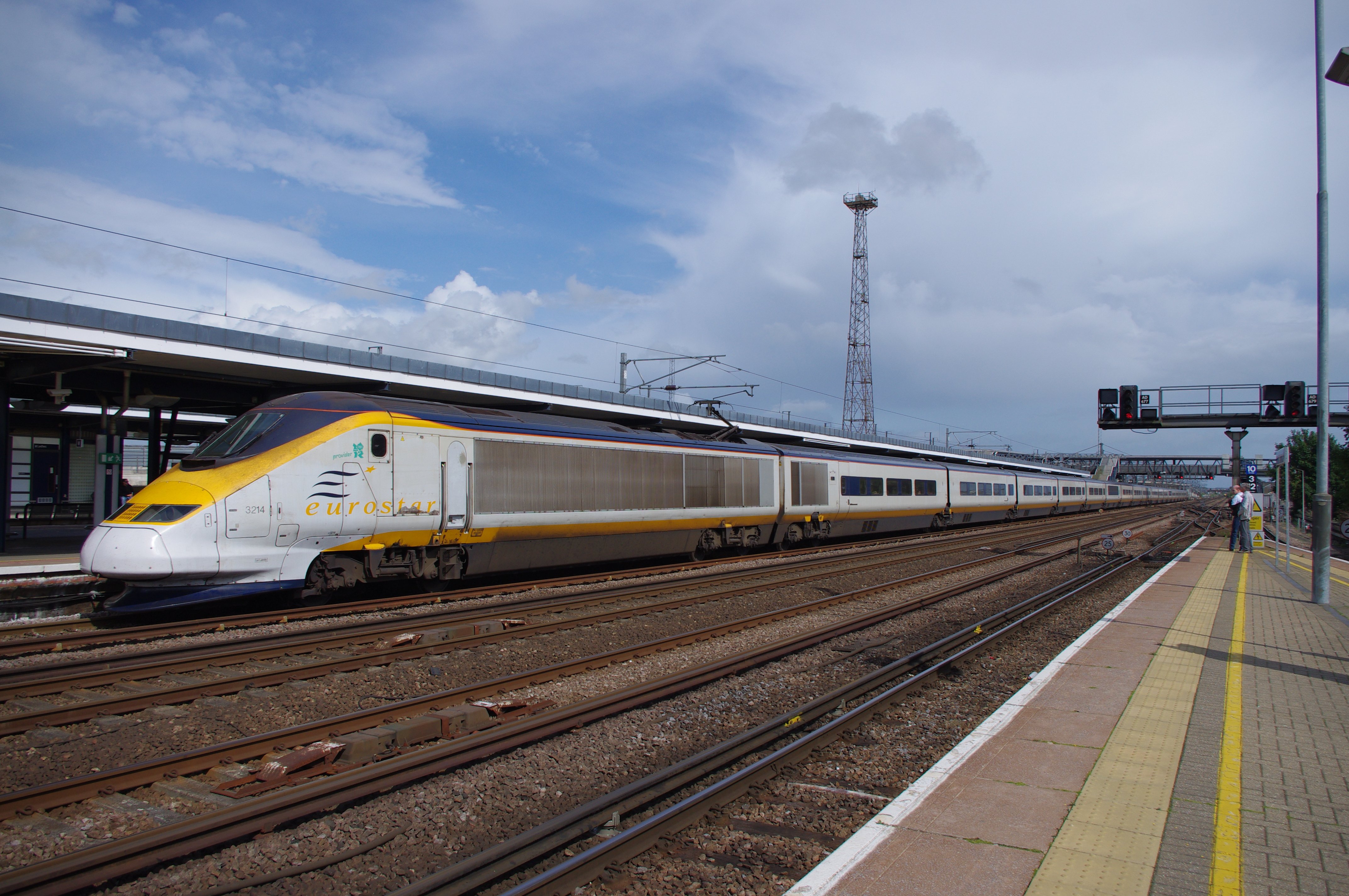 Eurostar Class 373 No. 3214 at Ashford International